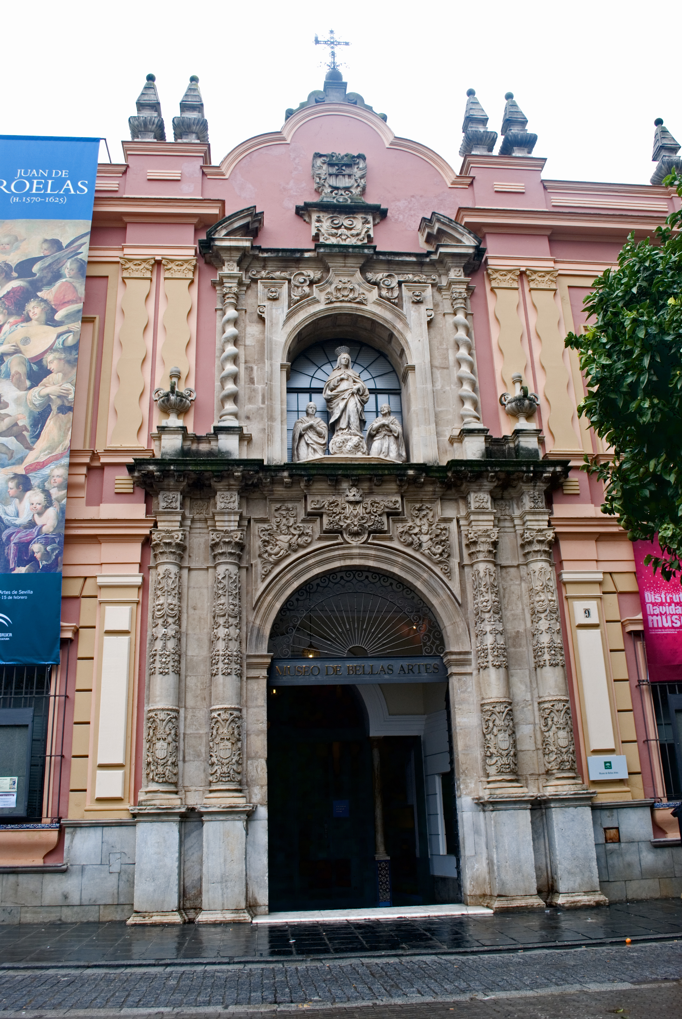 Main gate of Fine Arts Museum of Seville